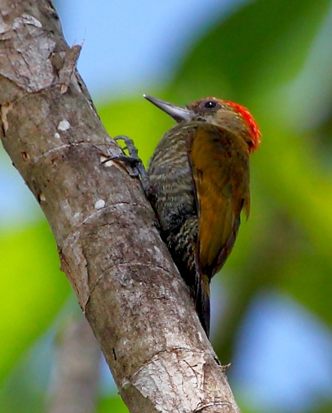 Red-stained Woodpecker (male) at Iranduba - AM - Brazil